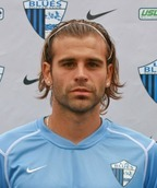 Tomislav Colic, LA Blues 2011 Roster